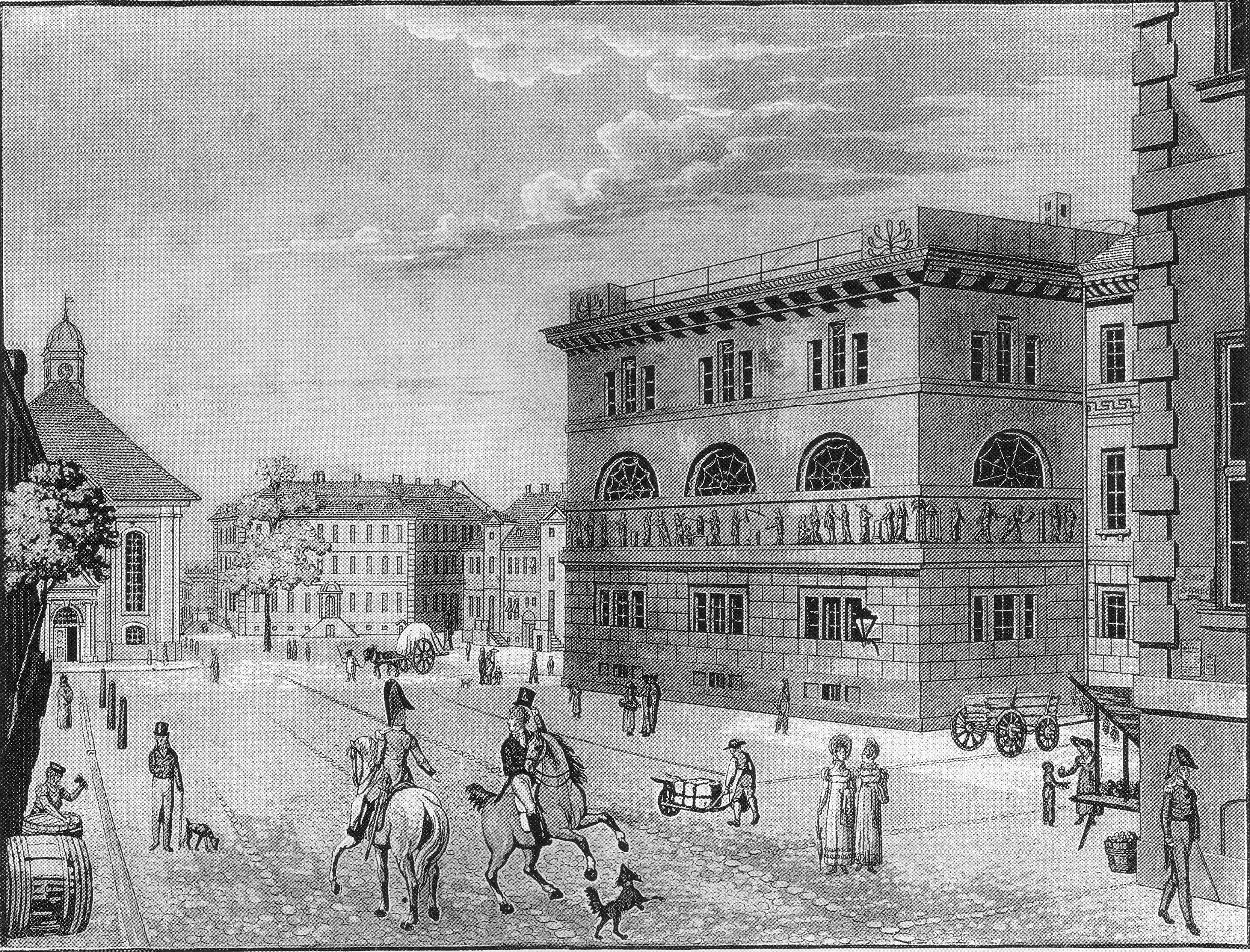 Werderscher Markt in Berlin; aquatint by Friedrich August Calau (around 1810). The large building in tthe center is the Royal Mint, built 1798 to 1800 by architect Heinrich Gentz, demolished in 1886. On the left stands the old Friedrichswerder Church, a former stable which had been converted into a church around 1700. It was demolished around 1820 to make room for a new church by the same name, built by Karl Friedrich Schinkel.